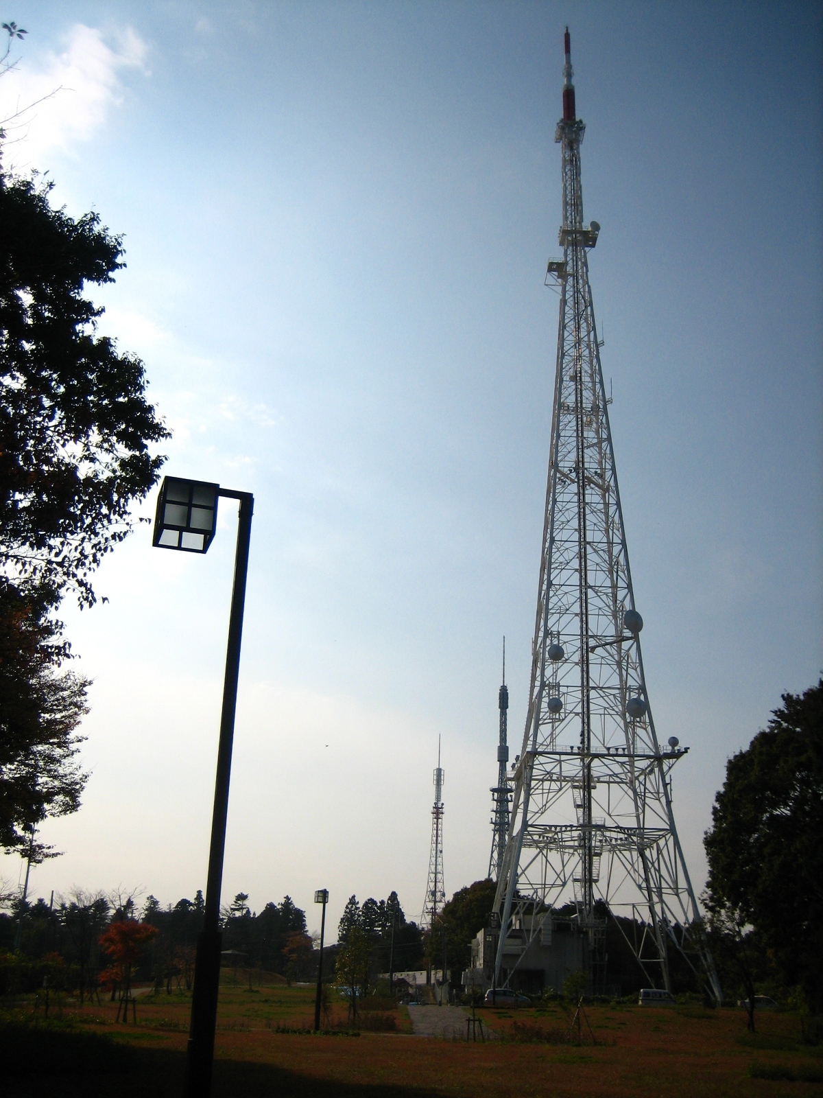 Television Tower of Dainenji Mt.(大年寺山のテレビ塔)